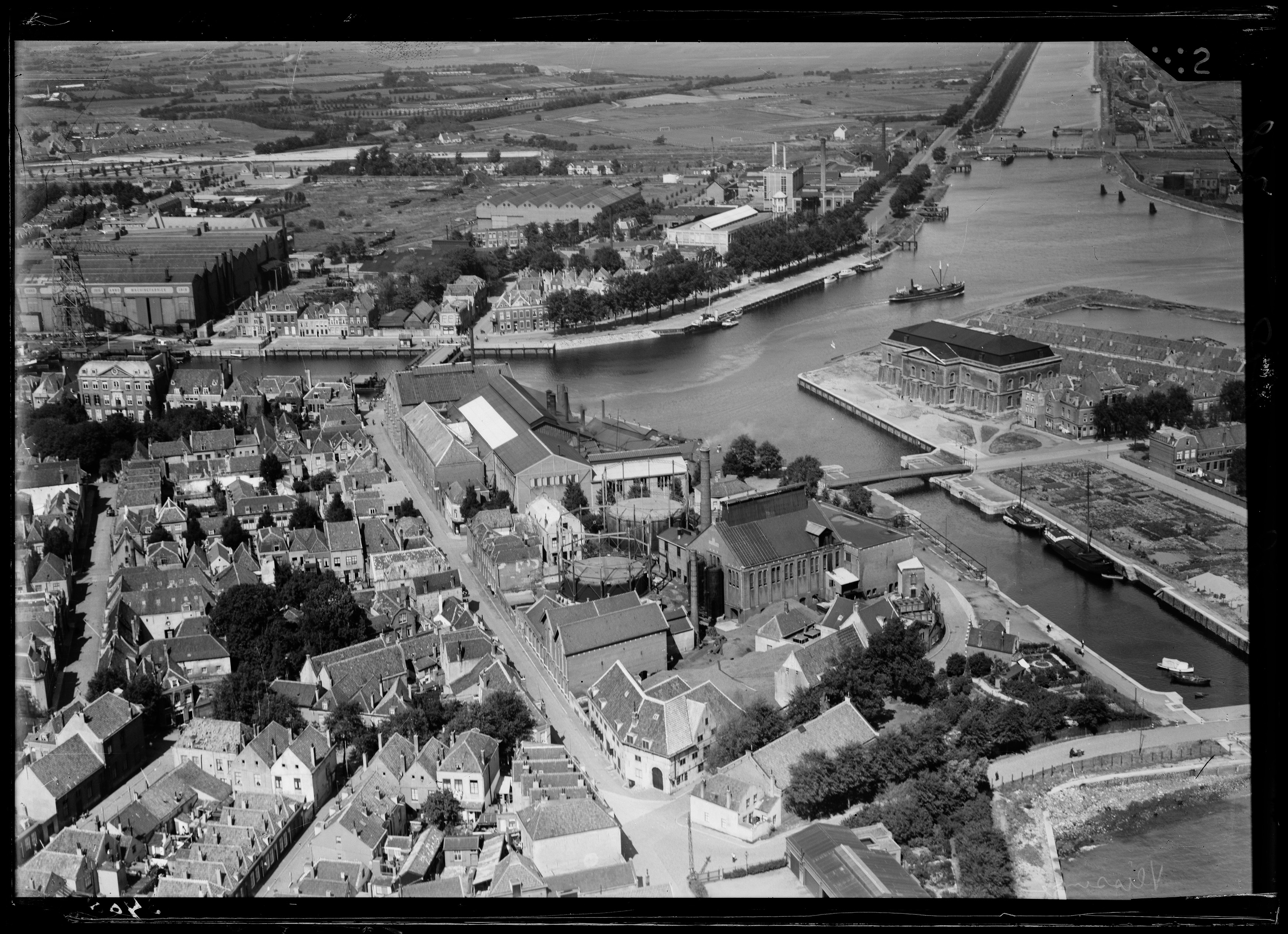 Aerial photograph of Vlissingen, The Netherlands